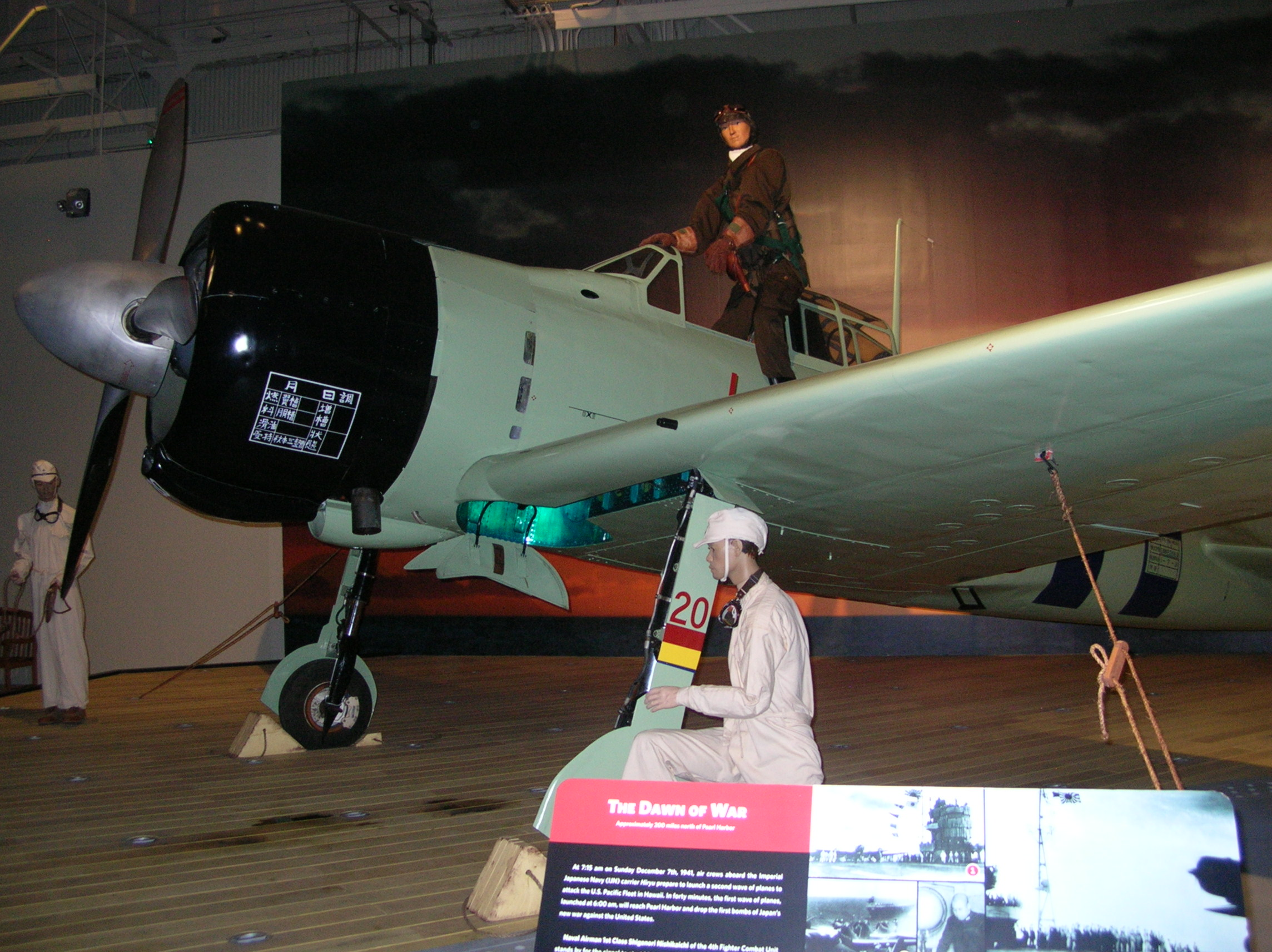 A6M2 Zero on exhibit at Pacific Aviation Museum, Pearl harbor.